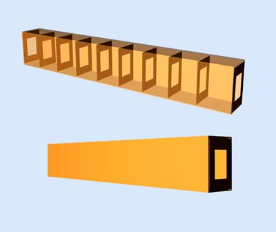 box girder